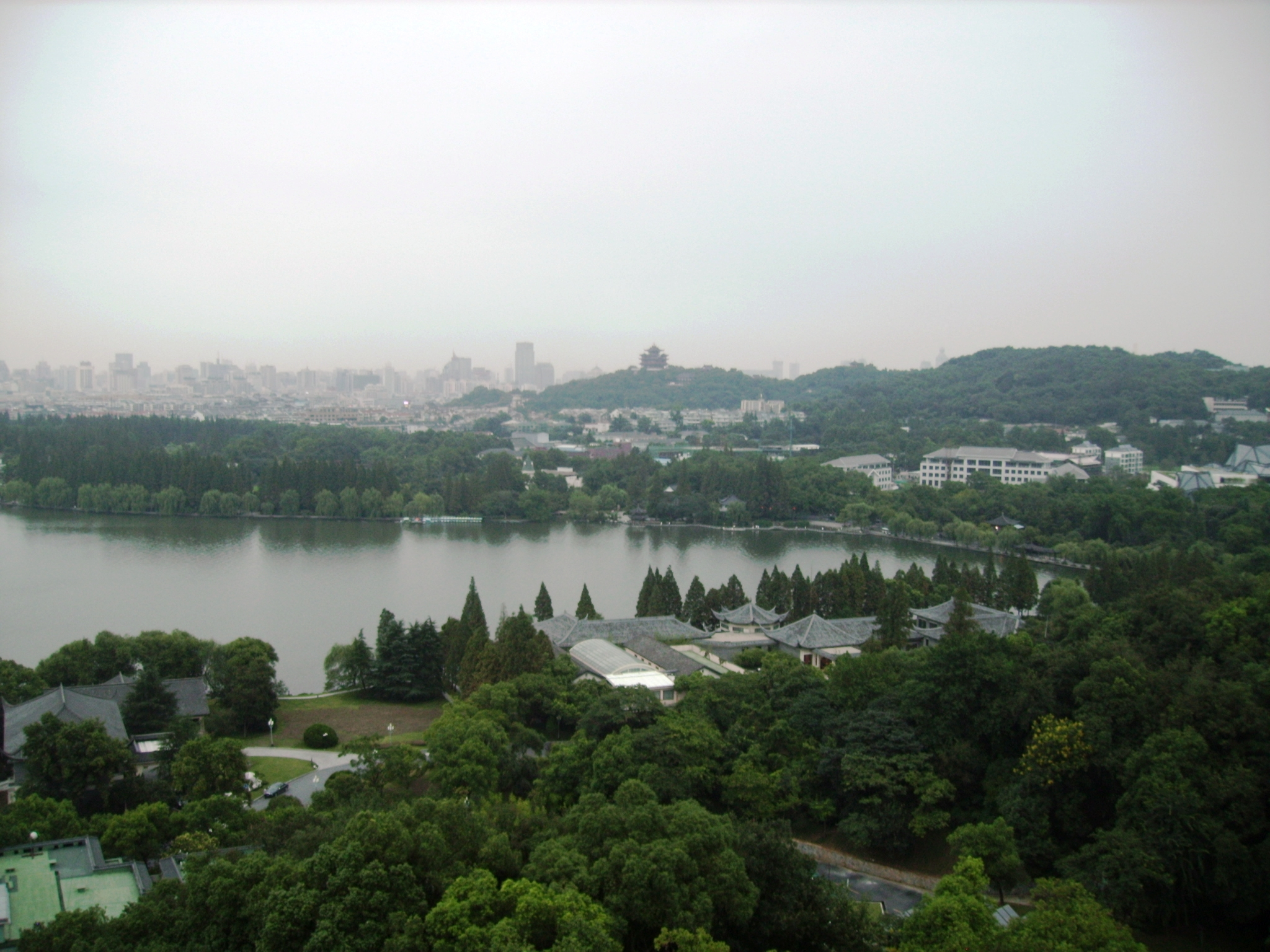 hangzhou-west lake wiew from leifeng pagoda